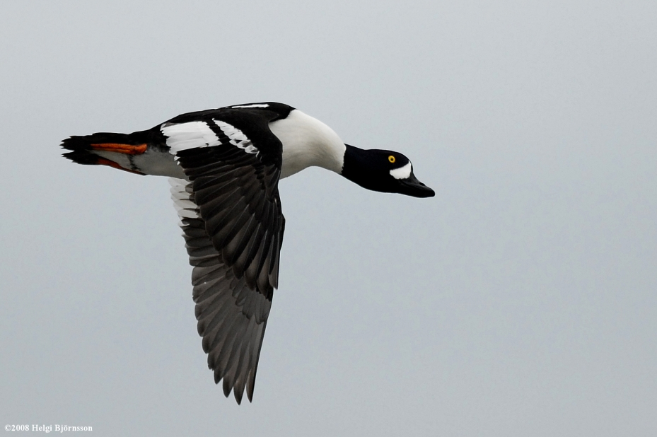 Barrow's Goldeneye Bucephala islandica, Iceland